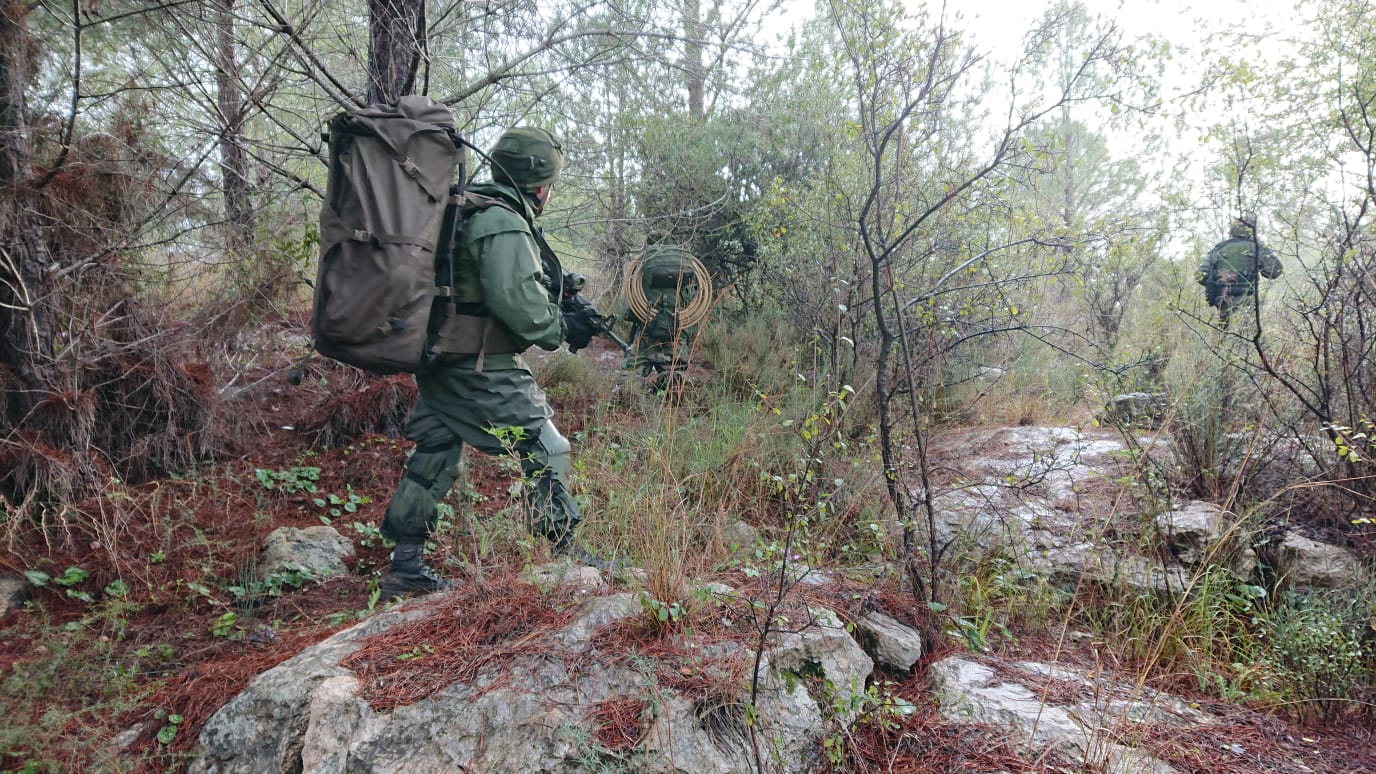 SvachDaya